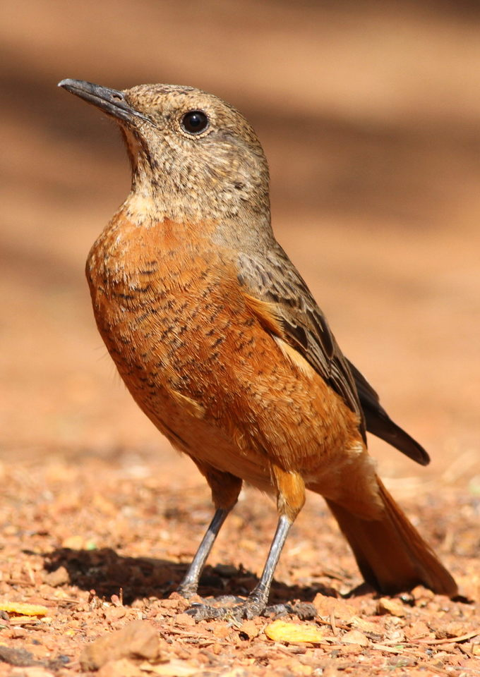 Cape Rock Thrush, Monticola rupestris at Suikerbosrand Nature Reserve, Gauteng, South Africa -- FEMALE